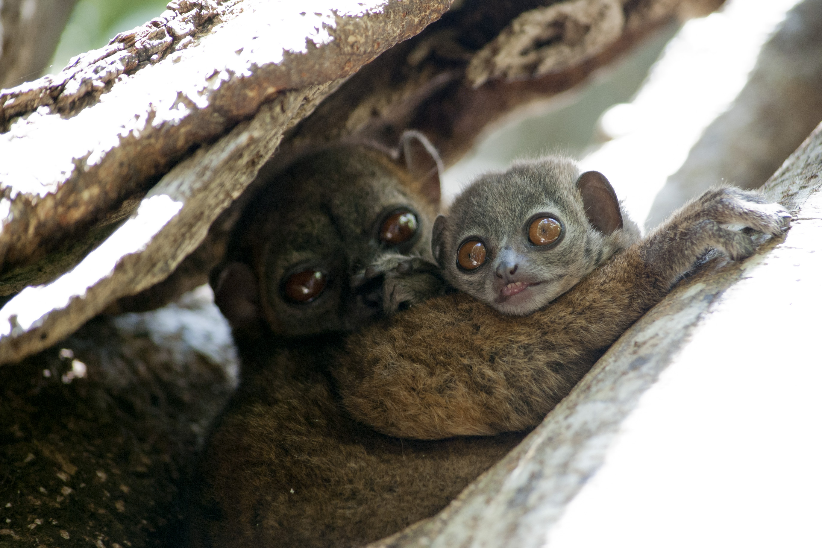 Lepilemur tymerlachsoni Lokobe Natural Reserve, Nosy Be, Madagascar